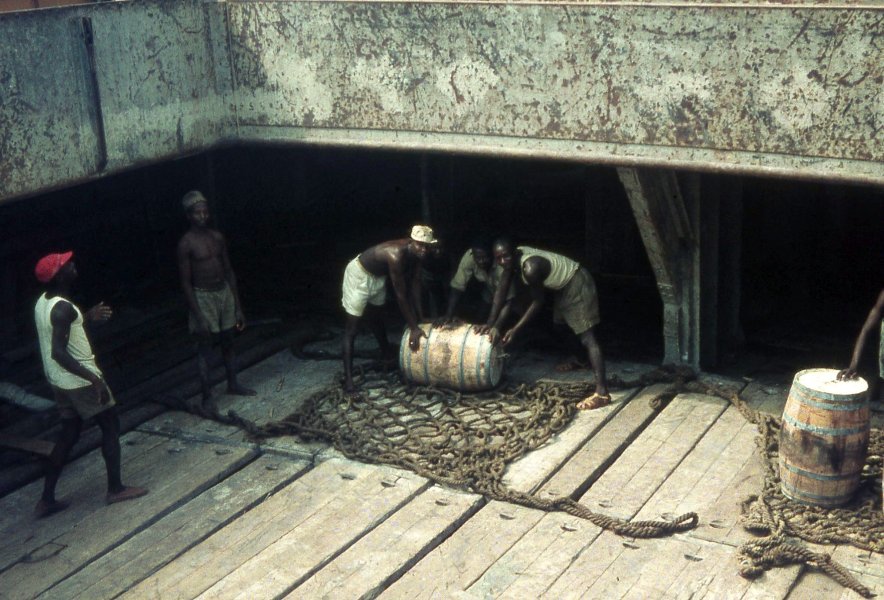 Unloading barrels, Accra at anchor, in the hatch - 1958-59